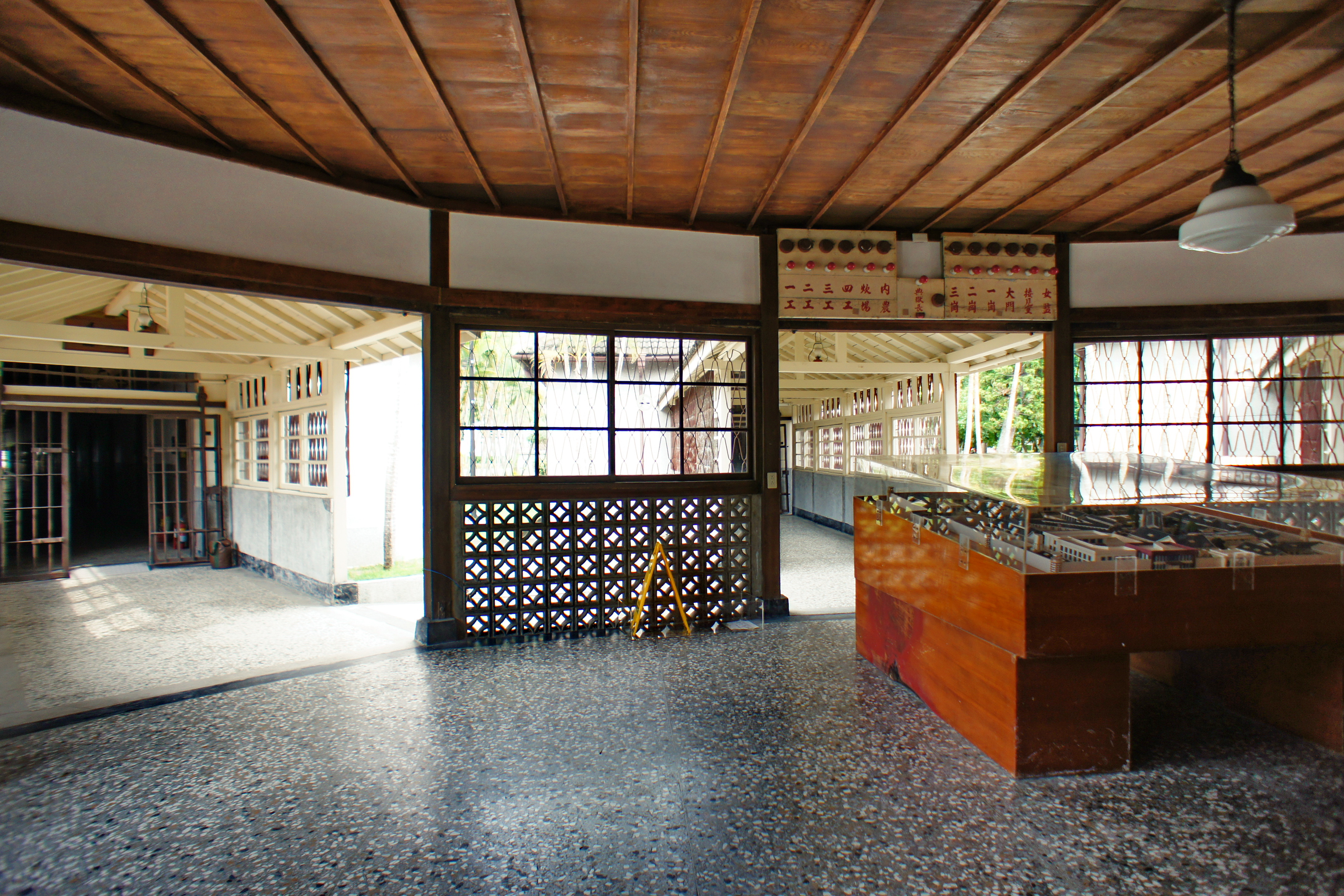 The Central Platform, the Old Chiayi Prison, Taiwan.